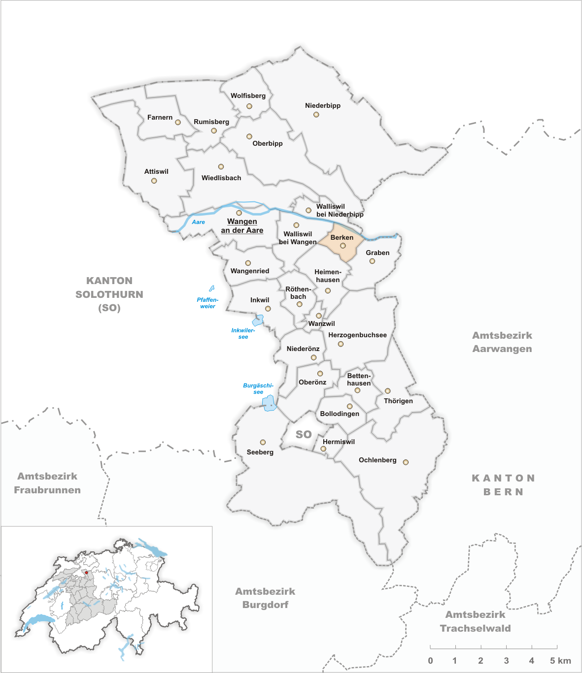 Municipality Berken